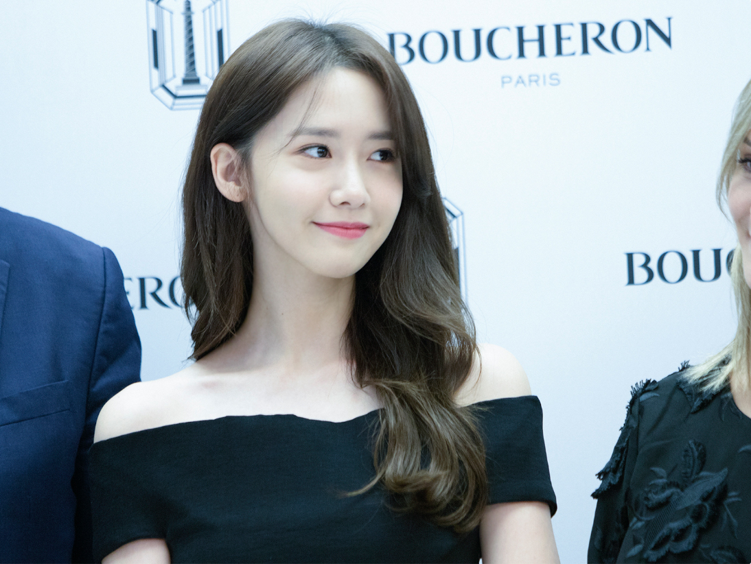 Im Yoon-ah attending a Bucheron event on November 22, 2016